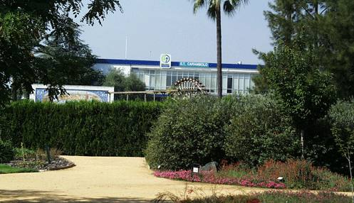 The Botanical Garden of The Arboreto del Carambolo was created to embellish the environment of the ETAP of the same name